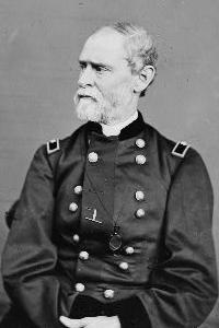 Gen. Joseph H. Eaton, U.S.A.